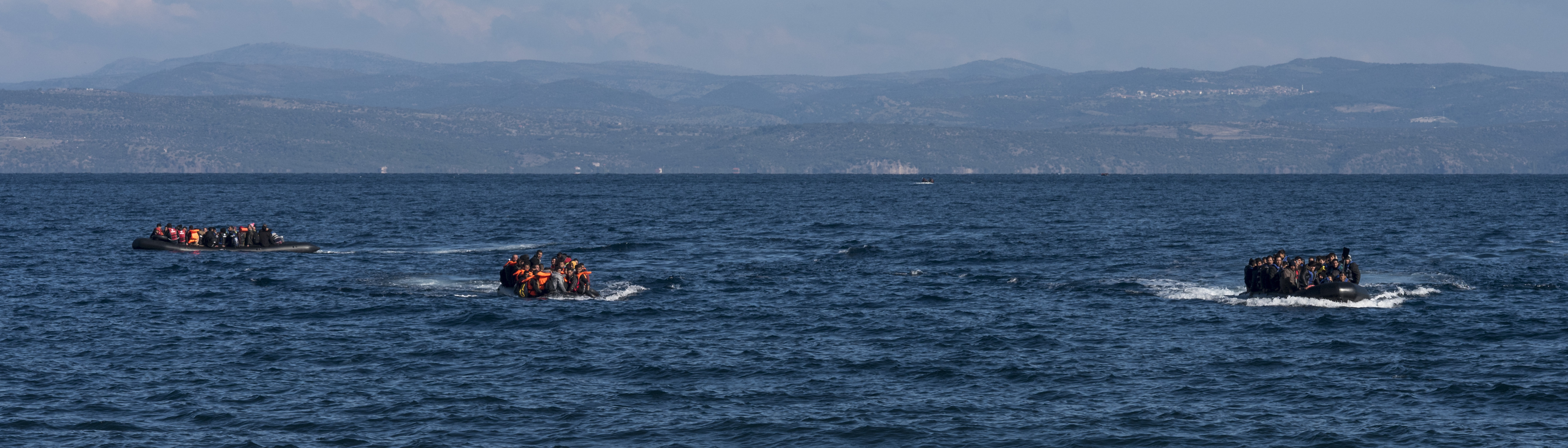 3 boats with refugees are arriving to the beaches of Skala Sykamia, in the background you can see another 2 boats, Lesvos island, Greece.